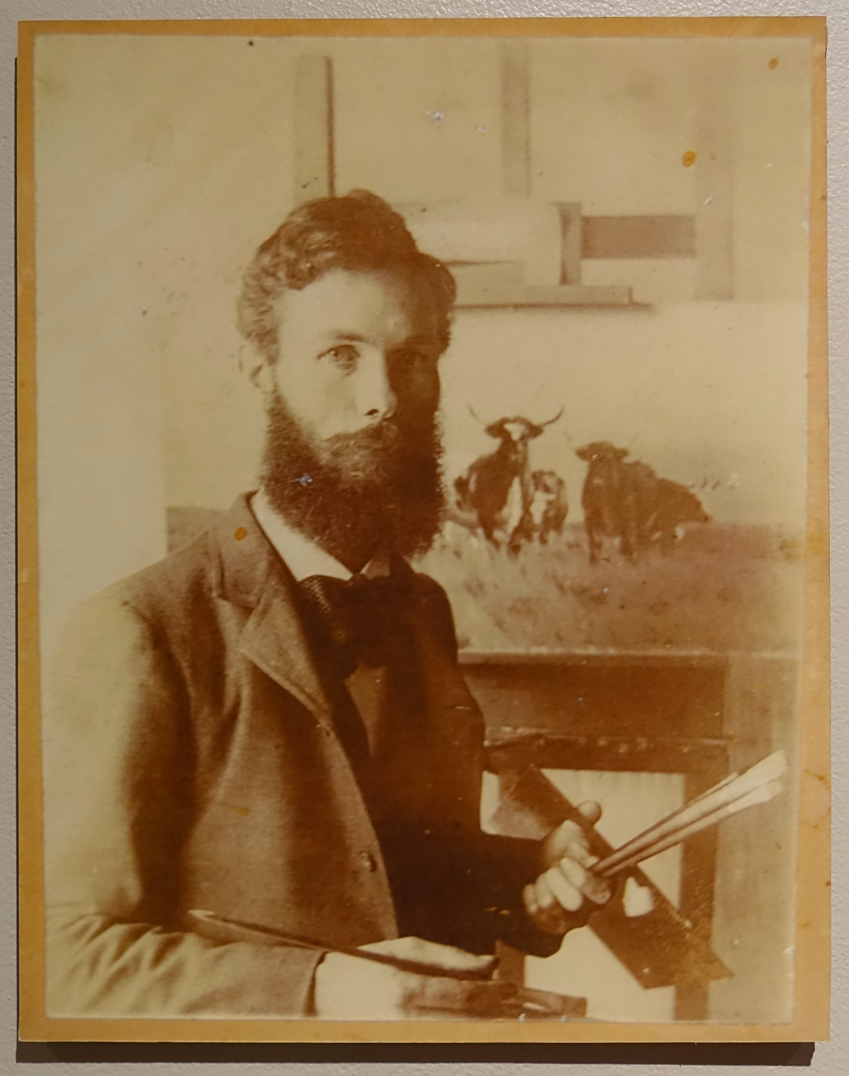 Exhibit in the Harry Ransom Center - University of Texas at Austin, Austin, Texas, USA. This work is old enough so that it is in the public domain.